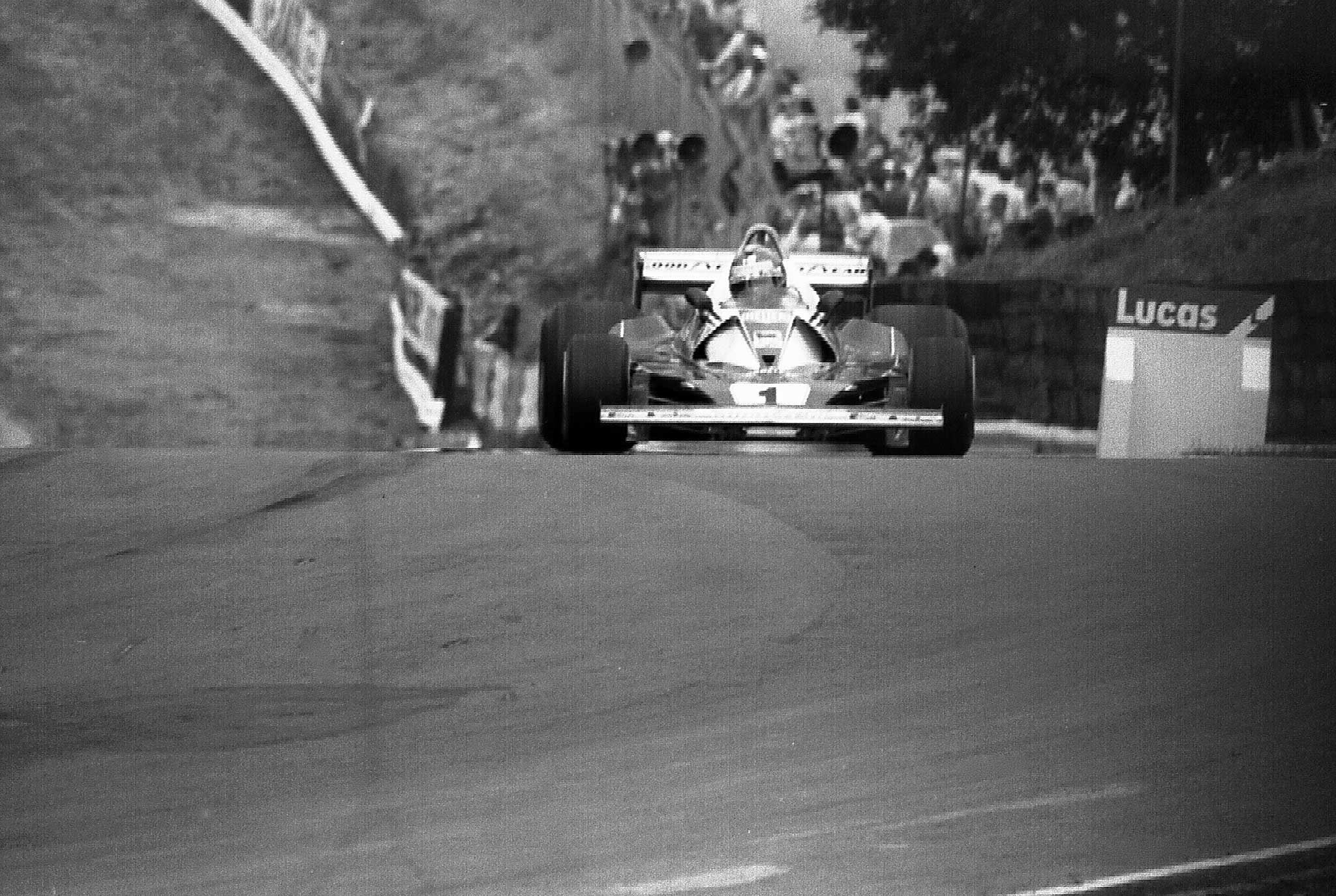 Niki Lauda 1976 at Brands Hatch in a Ferrari 312T2. British GP Scanned from a print.